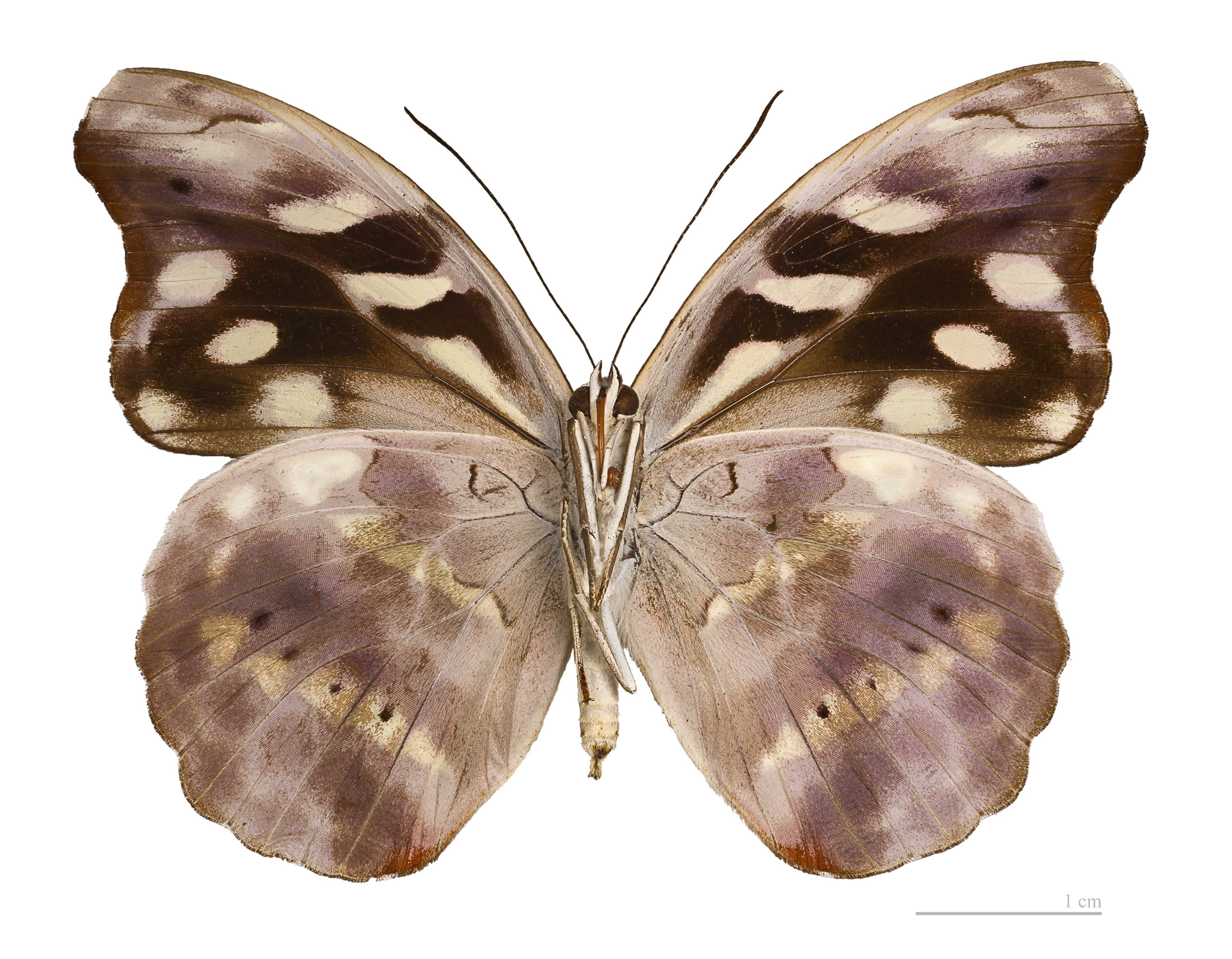 ♀ - △ Ventral side Locality: Óbidos, Pará, Brazil